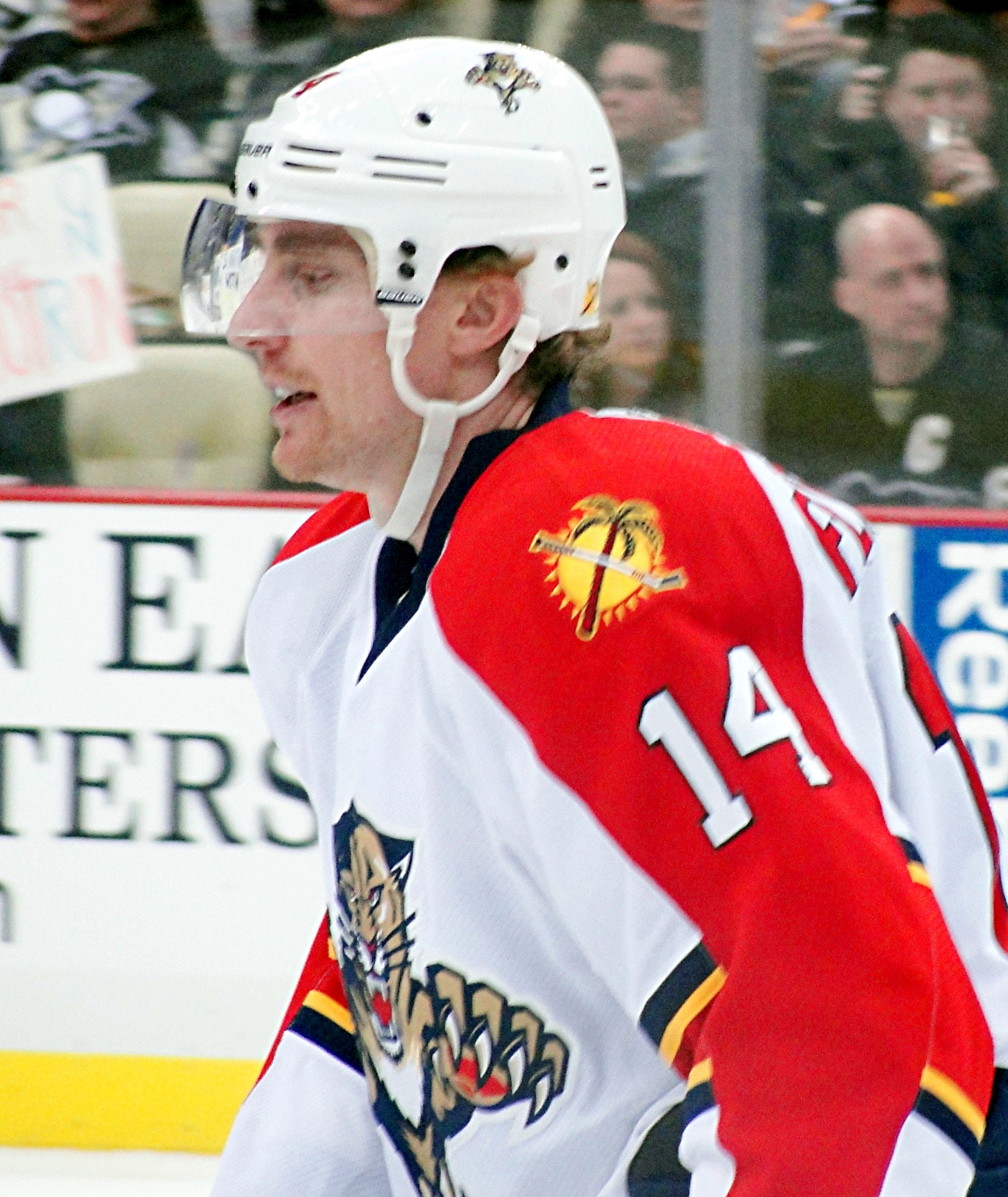 Florida Panthers forward Tomas Fleischmann skates against the Pittsburgh Penguins, March 9, 2012 at Consol Energy Center in Pittsburgh, PA.